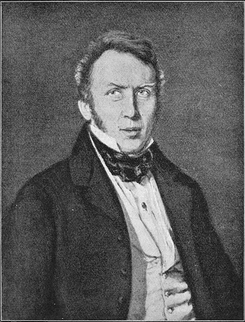 Christian Paulsen.